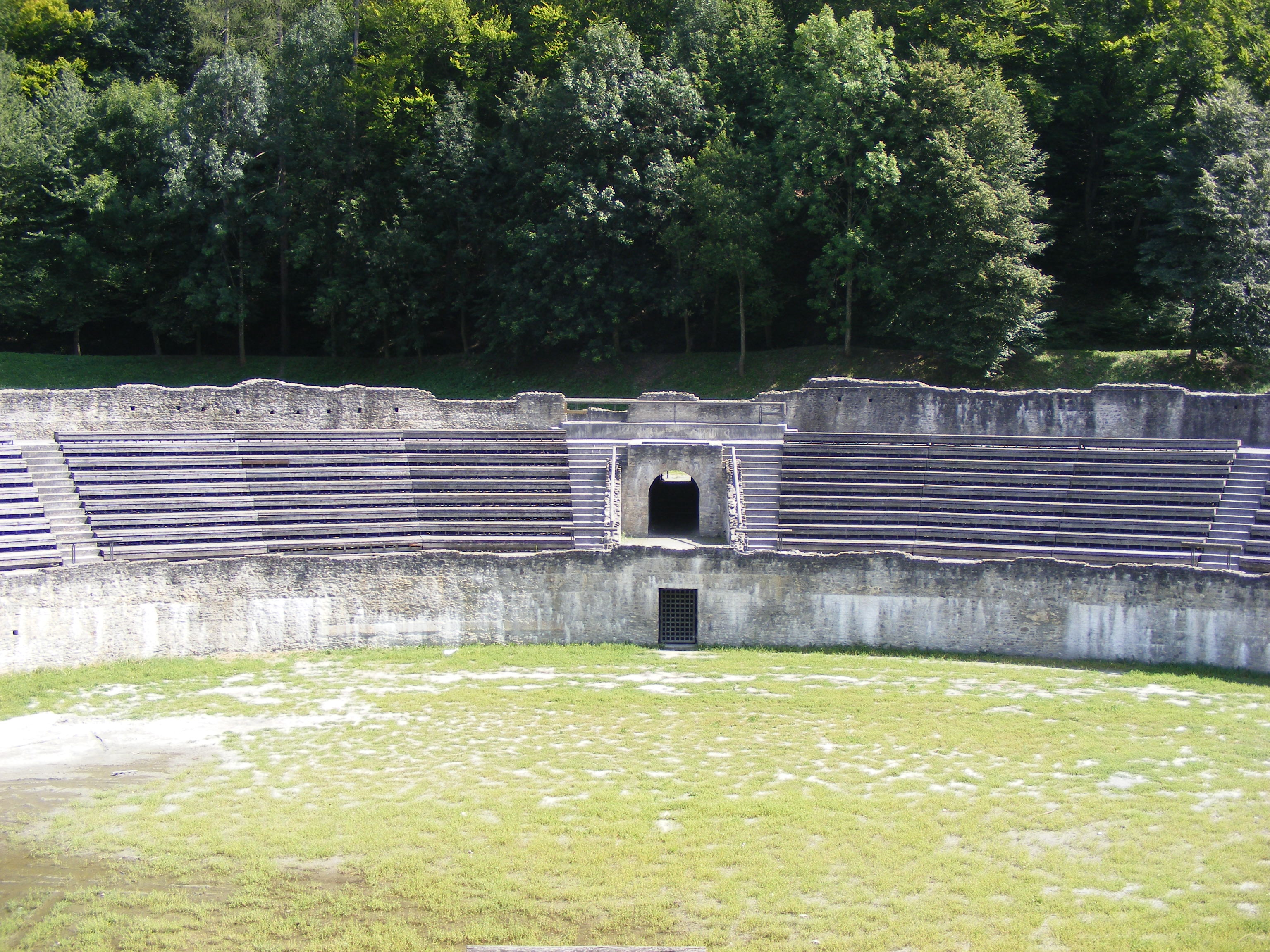 Reconstructed Roman amphitheater in Martigny Switzerland